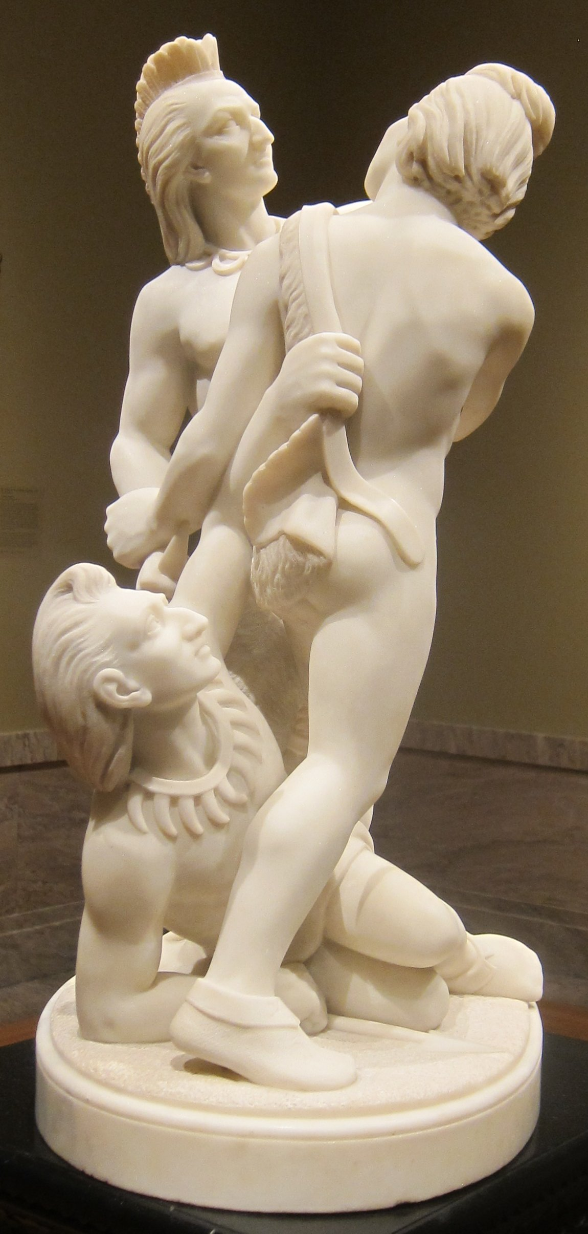 Indian Combat, marble sculpture by Edmonia Lewis, 1868, Cleveland Museum of Art